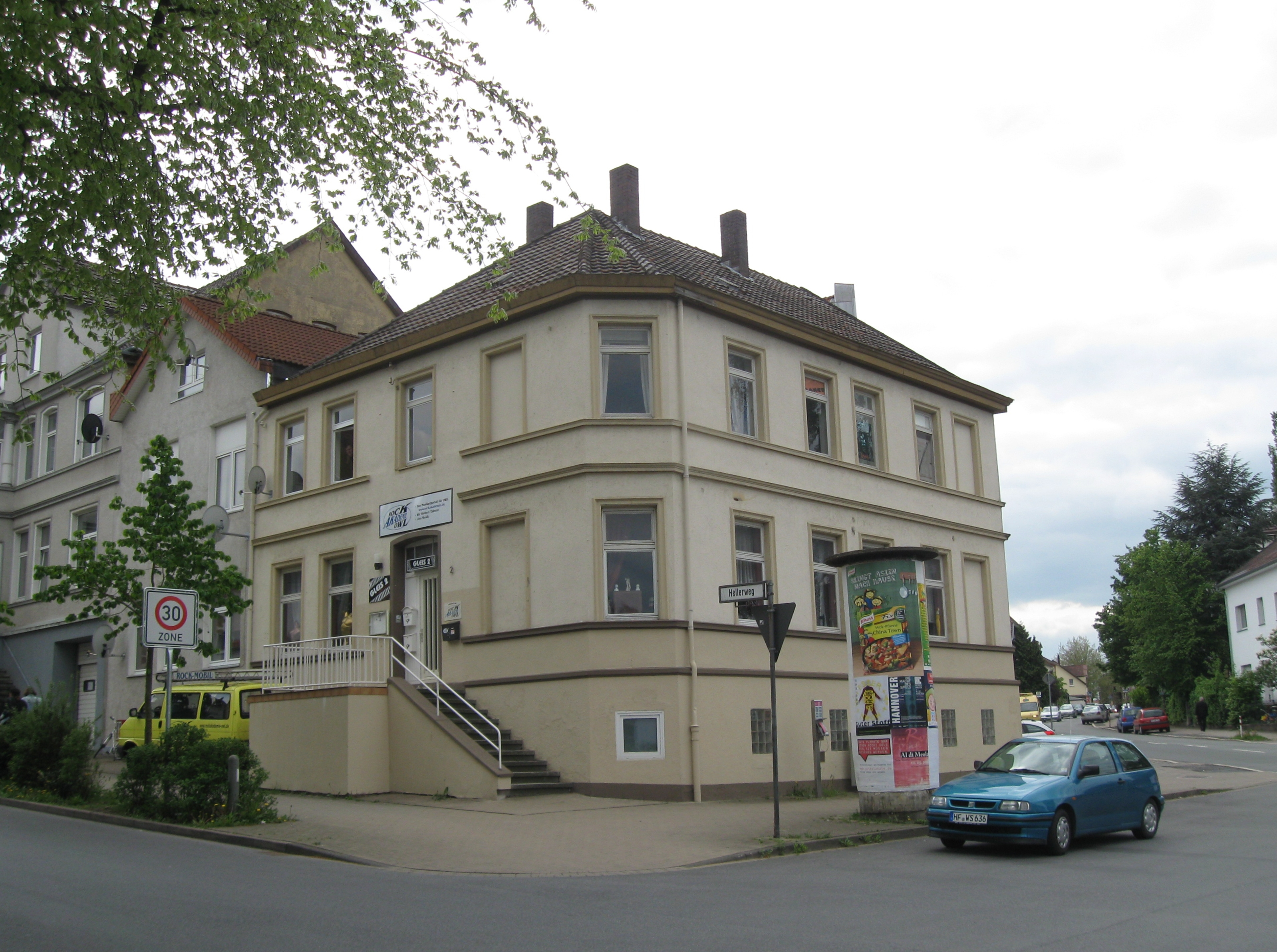 ock Academy in town of Herford, District of Herford, North Rhine-Westphalia, Germany.